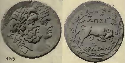 Greek coins and their parent cities (1902) Author: Ward, John, 1832-1912; Hill, George Francis, Sir, 1867-1948 Subject: Coins, Greek; Numismatics, Greek; Greece -- Description, geography; Italy -- Description and travel; Turkey -- Description and travel Publisher: London : Murray Possible copyright status: NOT_IN_COPYRIGHT Language: English Call number: AKB-0671 Digitizing sponsor: MSN Book contributor: Robarts - University of Toronto Collection: toronto Scanfactors: 7